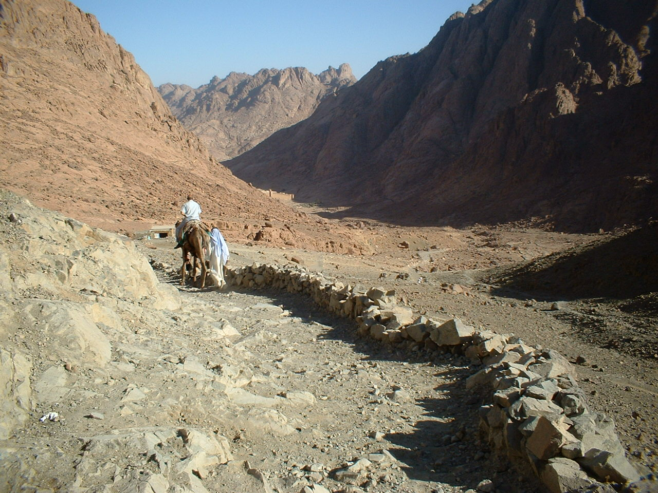 beutiful view of a path back down from mount moses